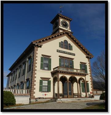 Town of Acton, Massachusetts Town Hall painted in historic colors